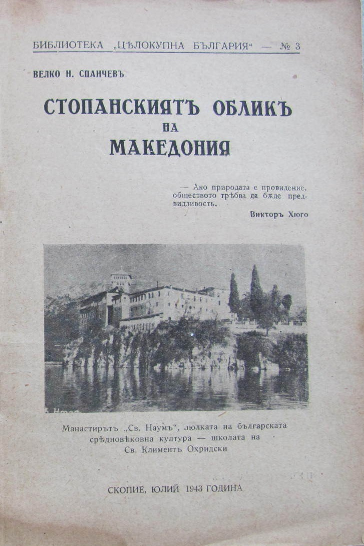 Velko Spanchev's Book 01